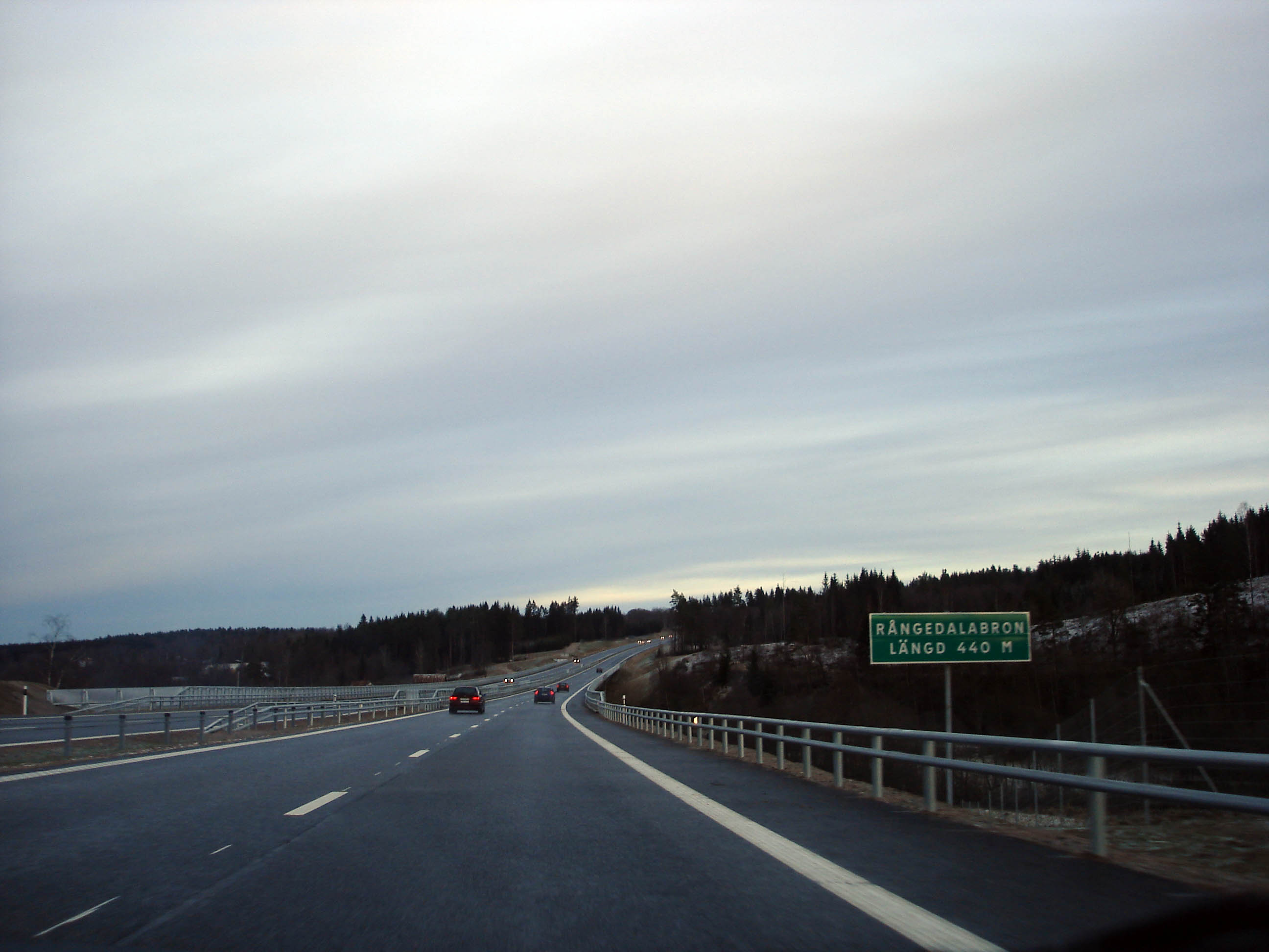 National road 40 eastbound between Borås and Ulricehamn near the bridge Rångedalabron.